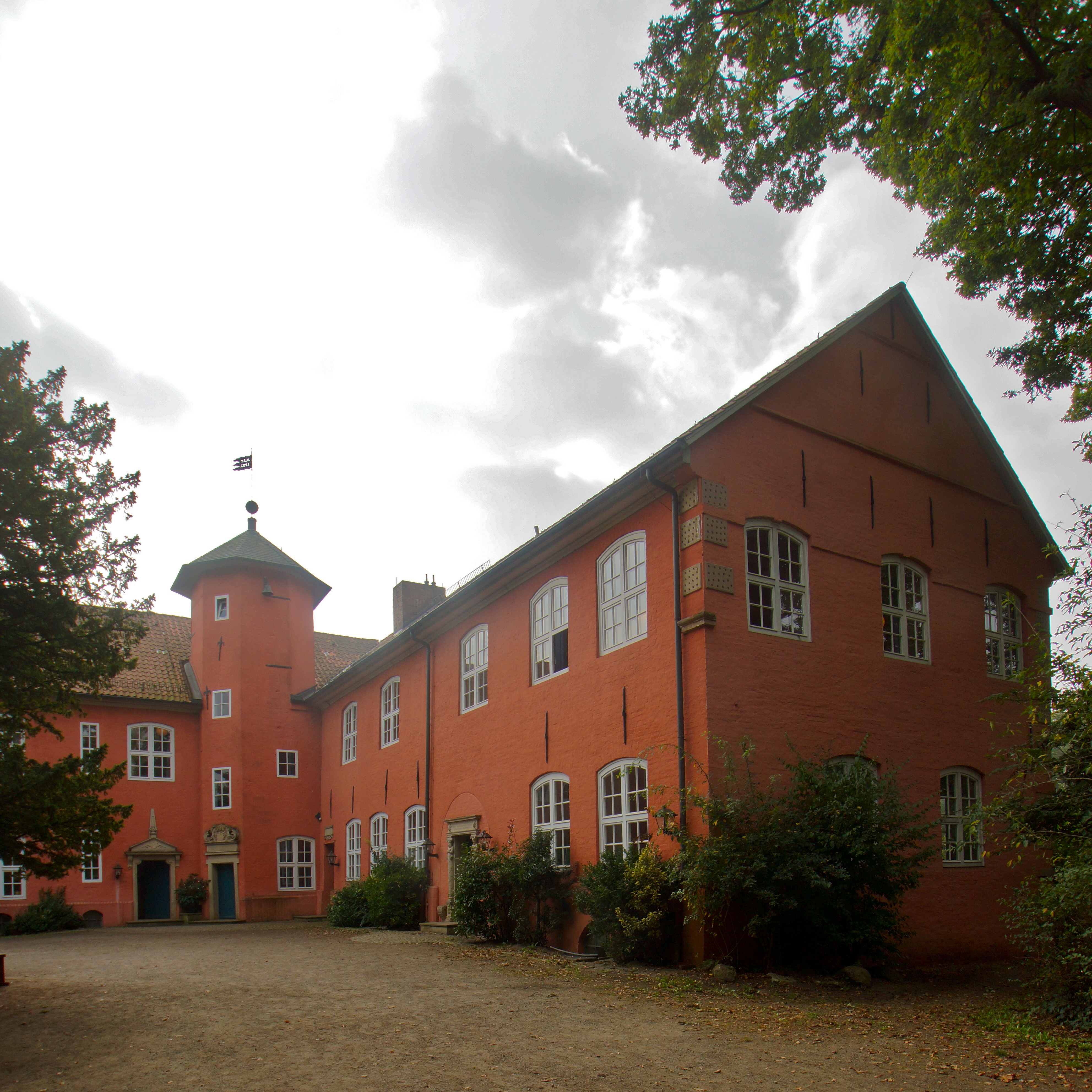 Ottersberg, Germany: Amtshof, nowadays Rudolf Steiner School